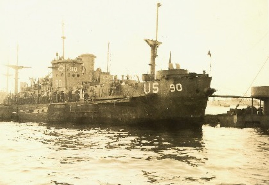 LCI 90, a USCG manned, ocean-going landing craft that participated in the Invasion of Normandy. Original caption: “LCI(L)-90 as photographed by Signalman John R. Smith, Jr., USCGR, crewman aboard LCI(L)-90. Photo courtesy of Robert Smith, son of Signalman John R. Smith”